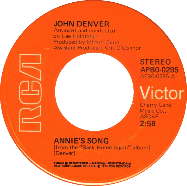 Side-A label of the 1974 US vinyl single release of "Annie's Song" by John Denver